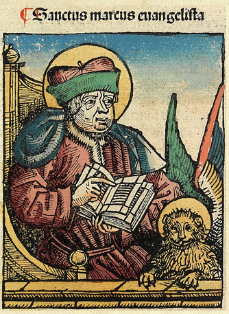 This is a part of a scan of an historical document: Title: Schedelsche Weltchronik or Nuremberg Chronicle